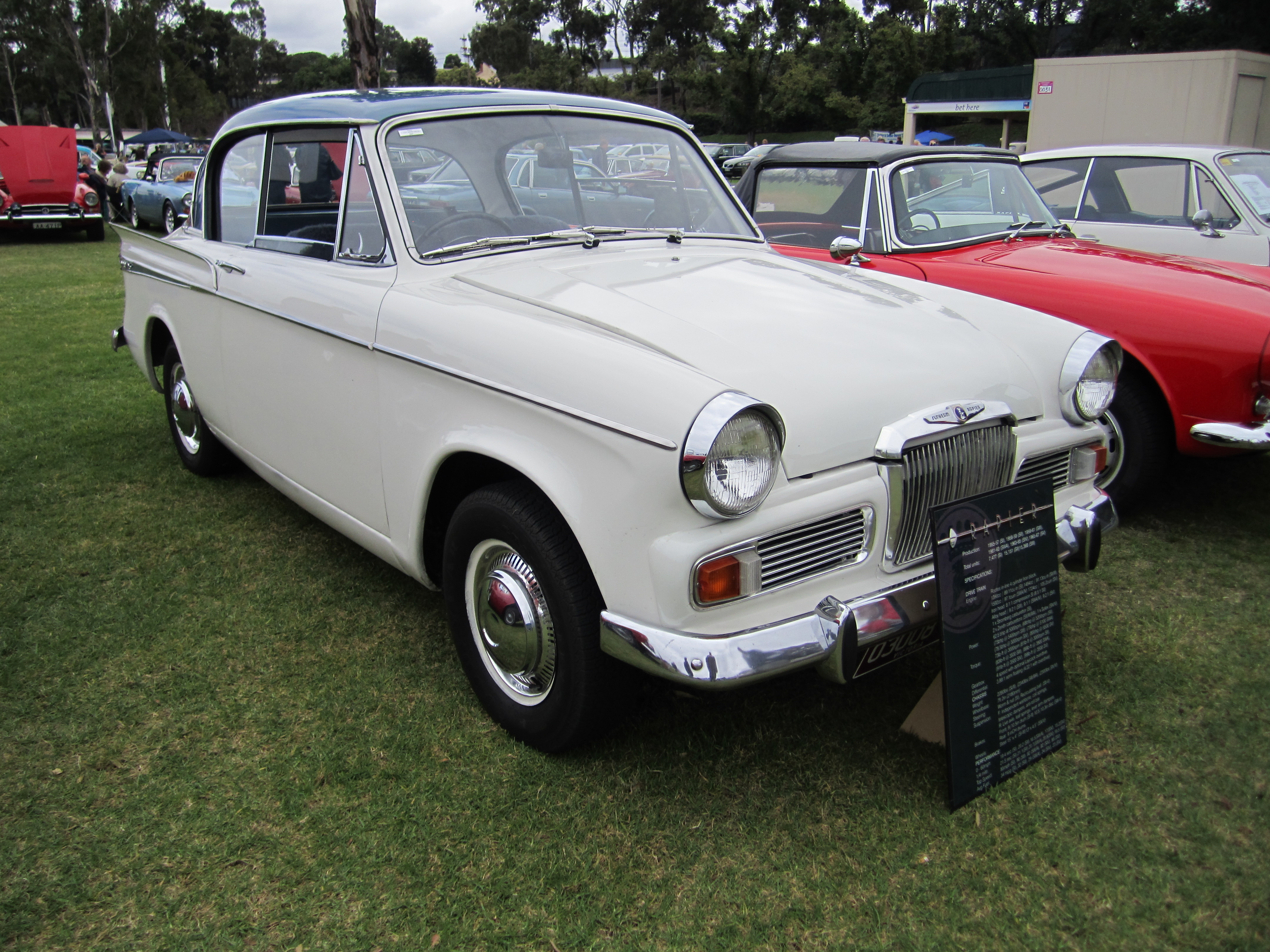 1964 Sunbeam Rapier Series IV. The Sunbeam Rapier was built from 1956-67 and was based on the Hillman Minx. The Series IV from 1963 to 1965. Engine; 1592cc 4 cyl.